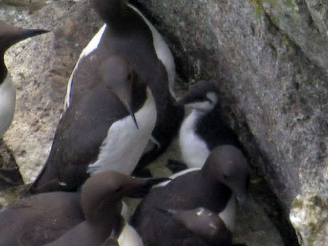 Common Guillemot Chick